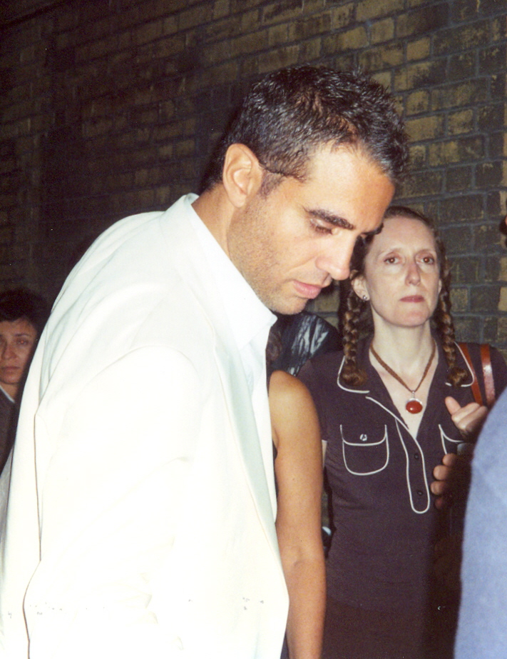 Bobby Cannavale on hand at the 2005 Toronto Film Festival